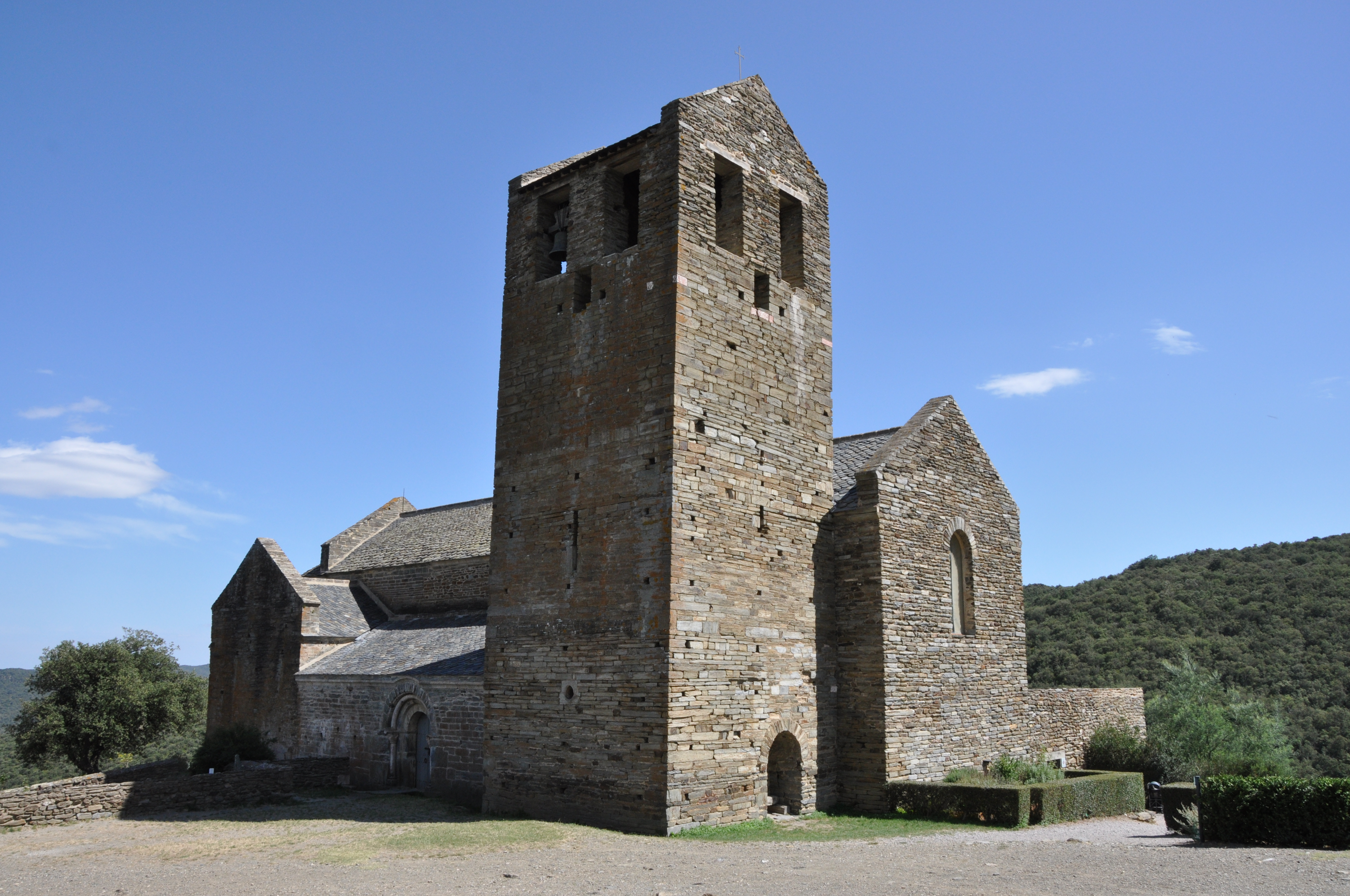 Bula d'Amunt. Serrabona priory. 11th -12th C.